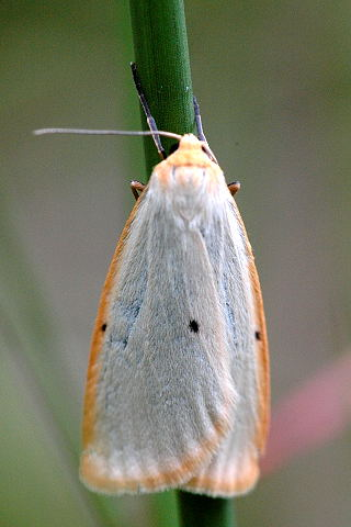 Picture taken in Commanster, Belgian High Ardennes . Species: Cybosia mesomella